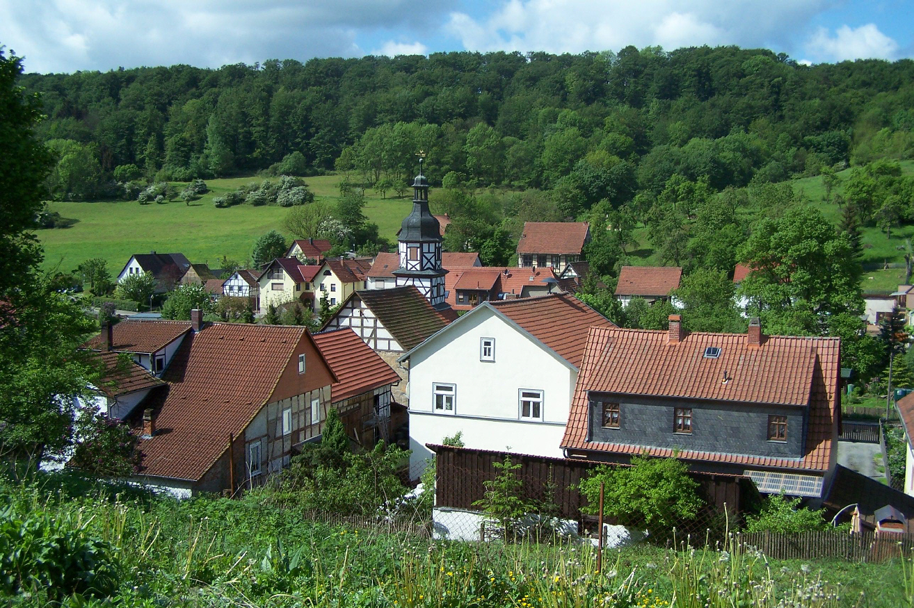 In Hallungen village, lower part.